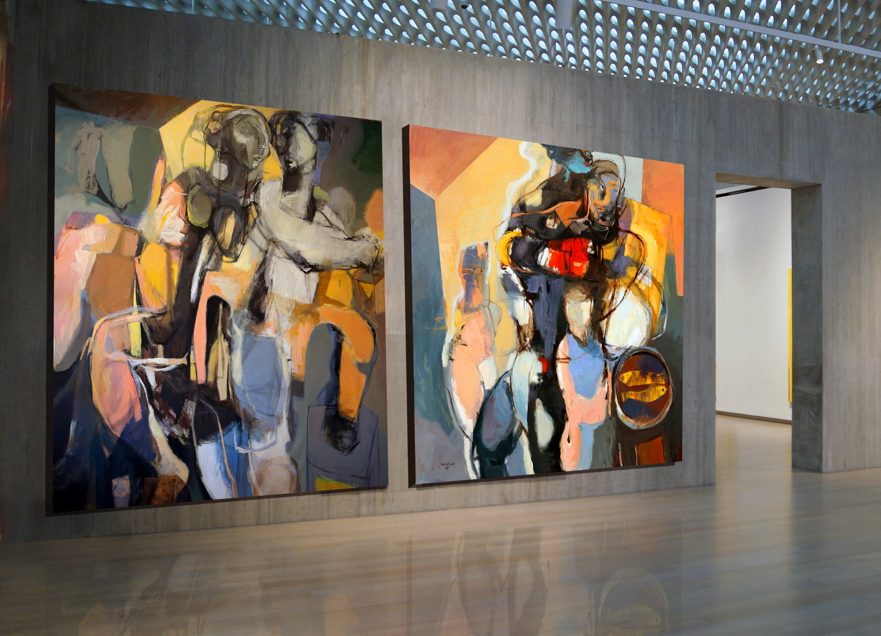 Diogenes & Coalition with... Fish- 7X7 feet each